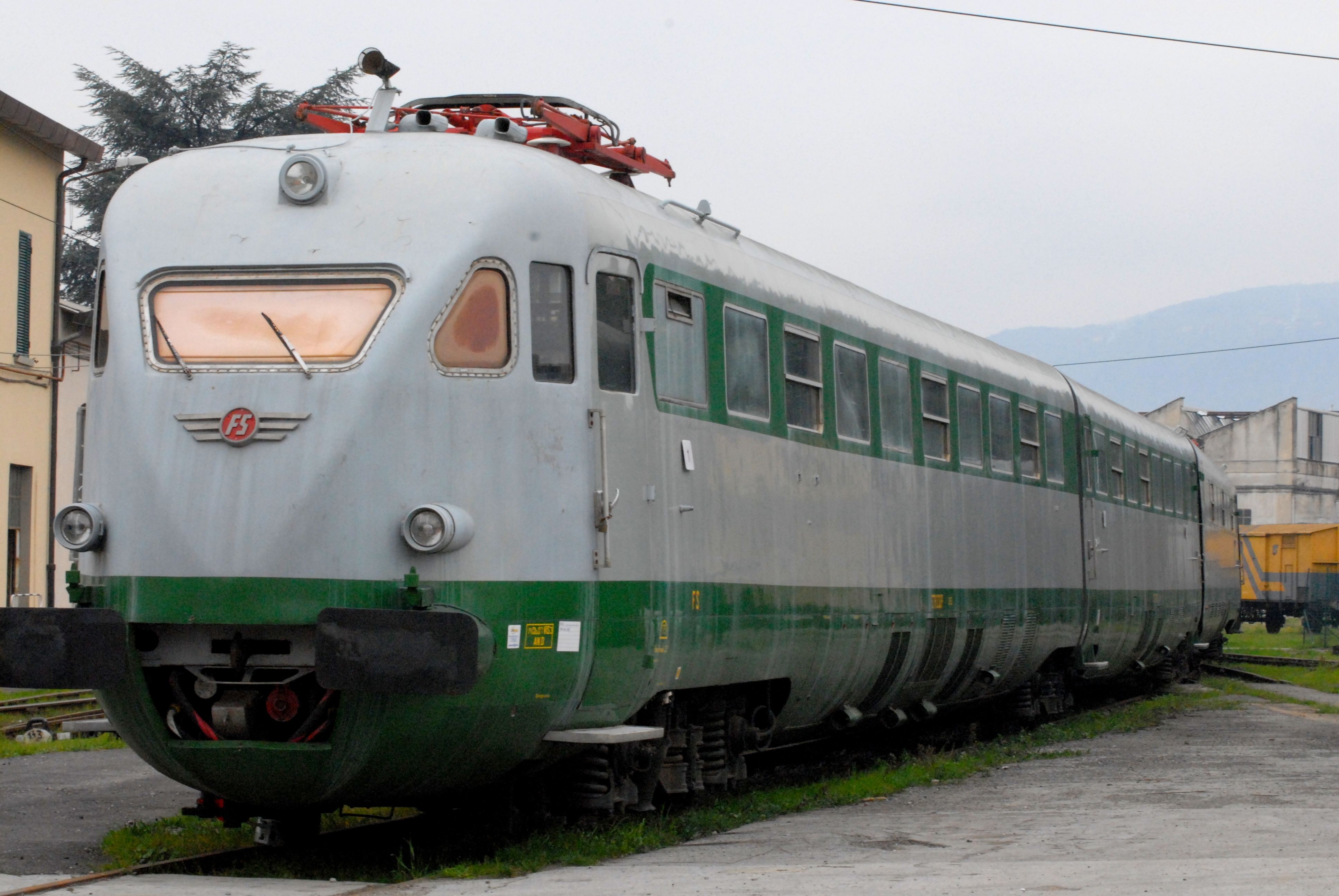 Photos from the FS railway deposit in Pistoia, Italy. head of FS ETR 232. This unit, known as 212 before the ugrade of the 1960s, is the original trainset that extabilished the world record for speed, gained on 20 july 1939 near Piacenza. The trainset has been preserved as historical train, and is one of the two surviving ETR200 trainsets.